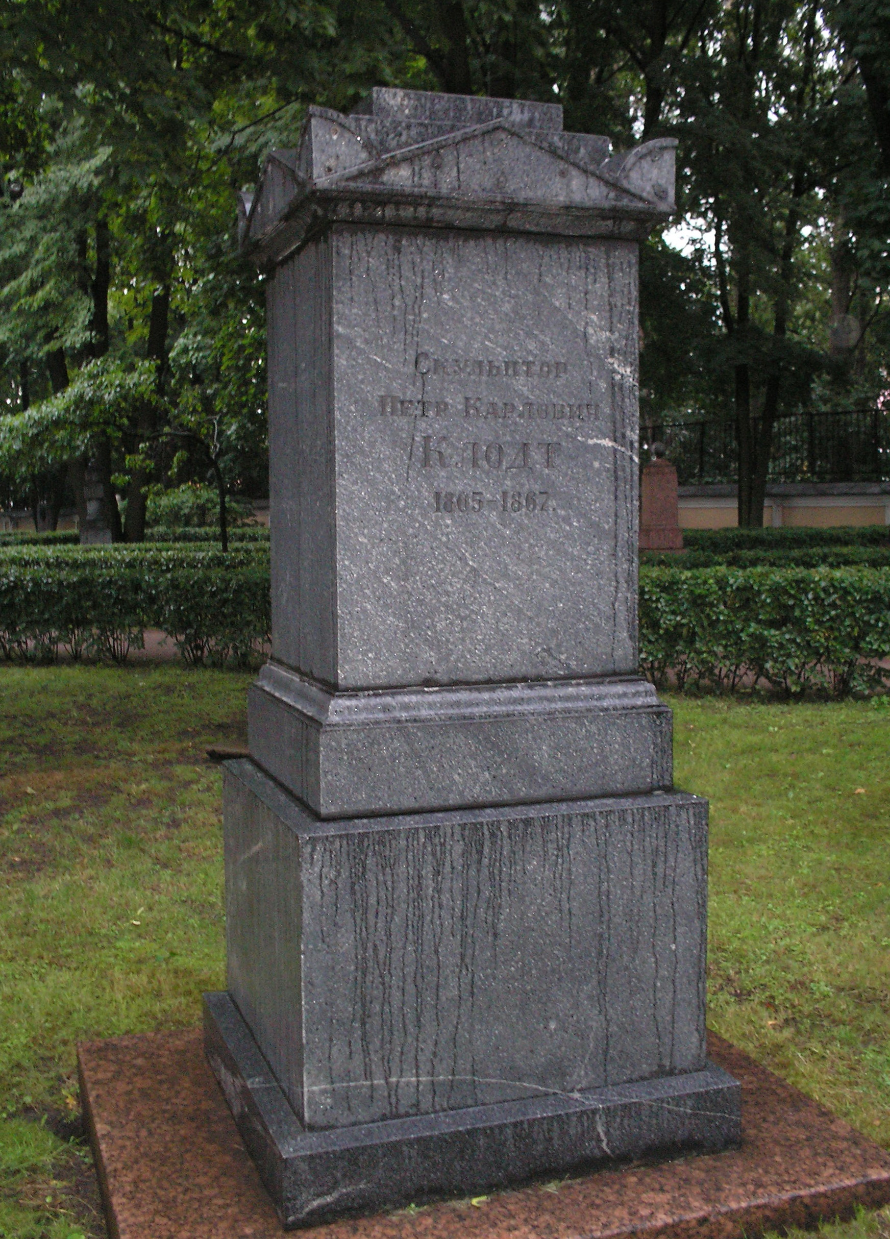 Tomb of P. K. Clodt